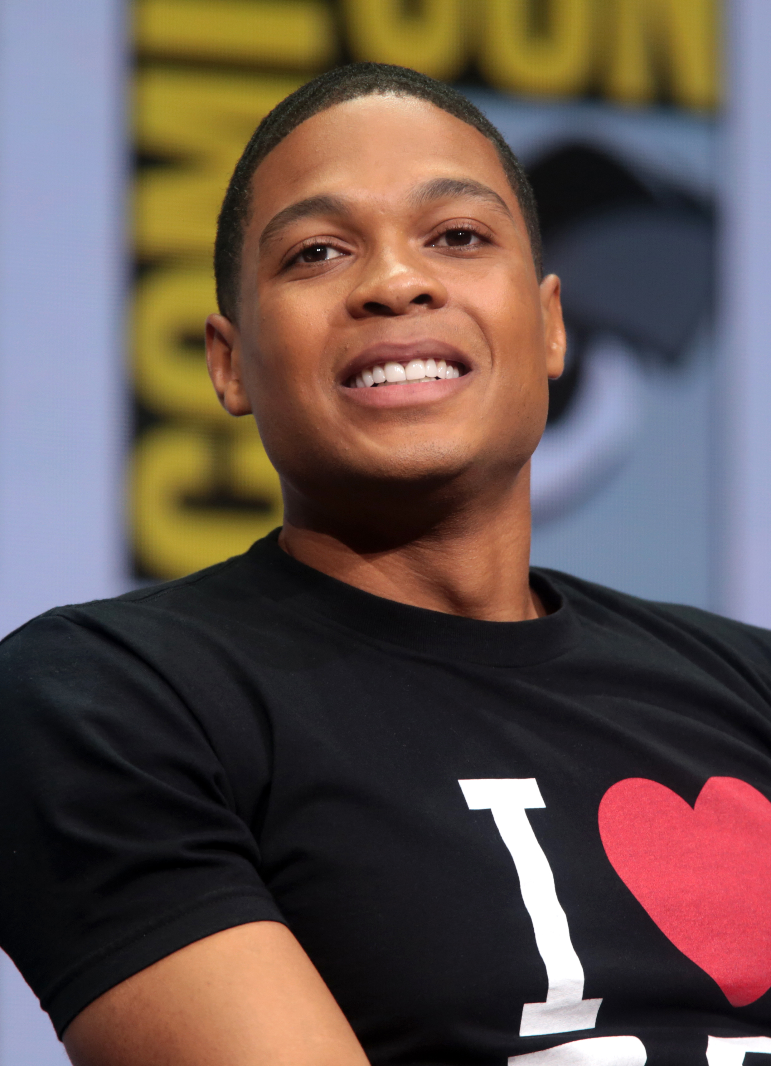 Ray Fisher speaking at the 2017 San Diego Comic-Con International in San Diego, California.